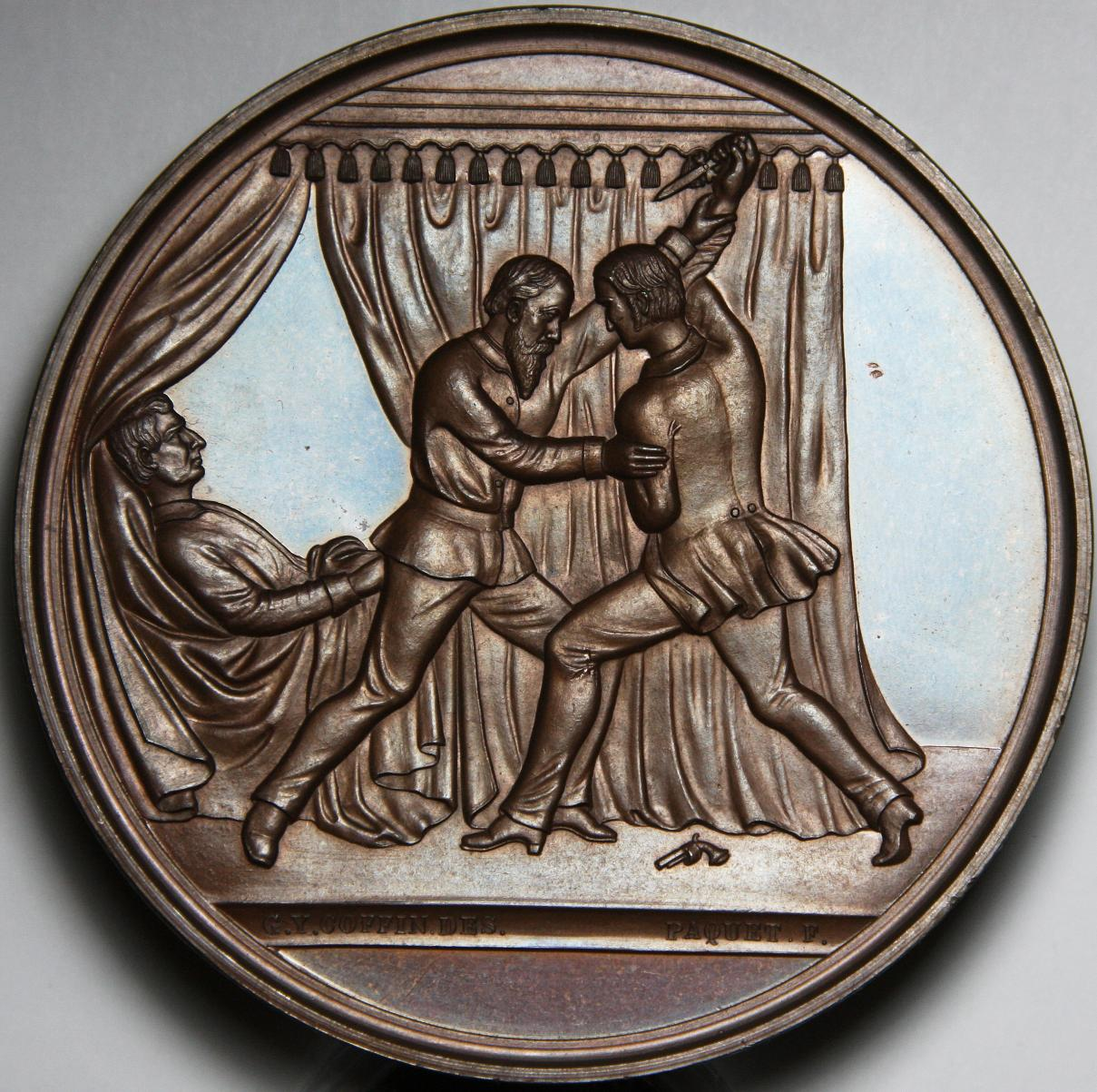 Medal given to George Robinson for saving the life of Secretary of State William Seward during the assassination plot of 1865 (reverse)